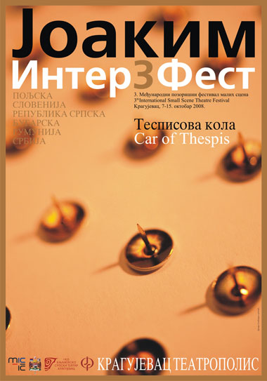 Poster of 3. JoakimInterFest, International Small Scene Theatre Festival, City of Kragujevac